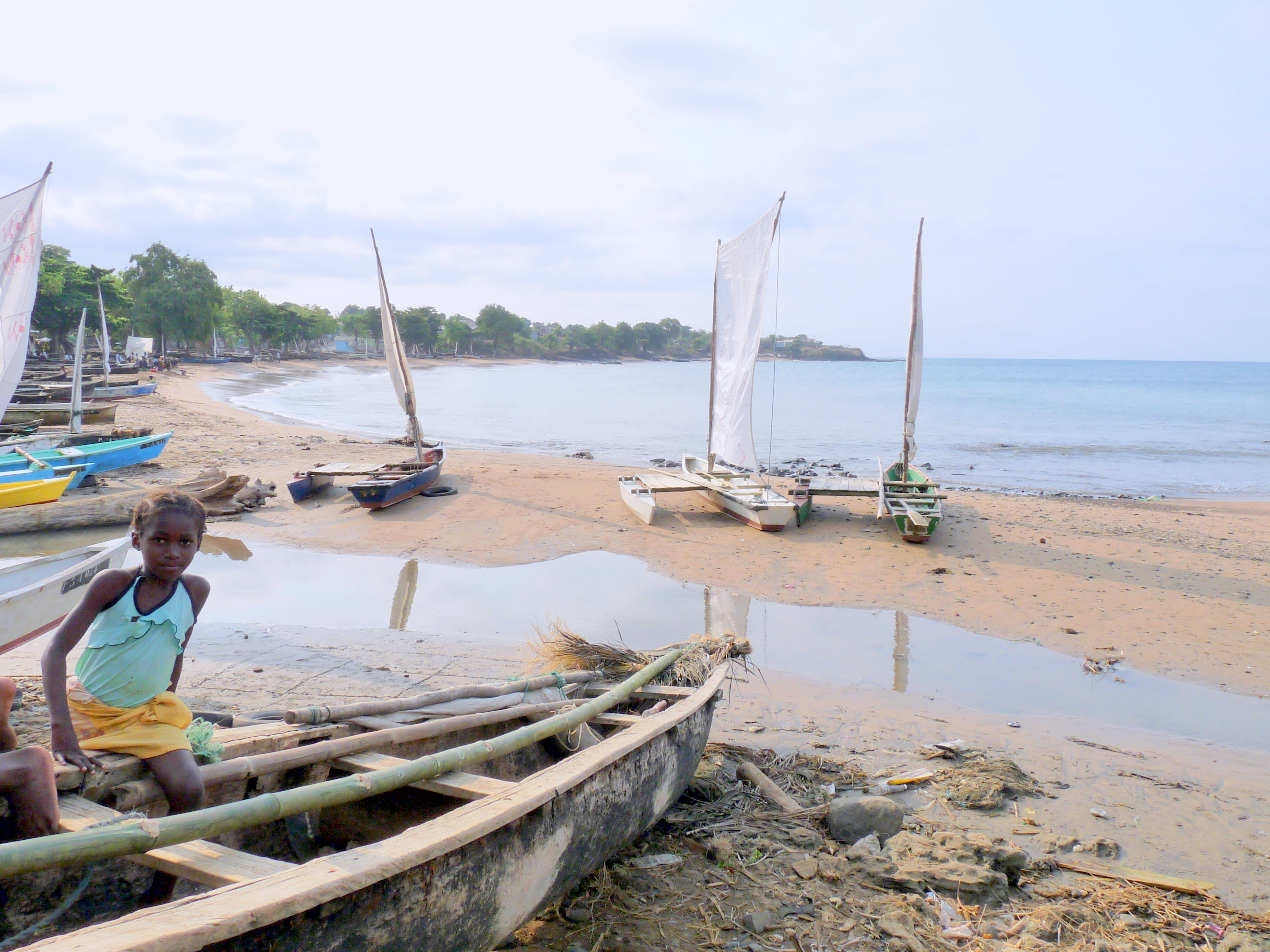 Just south of the capital, local fishermen work to feed their families. Sao Tome & Principe, West Africa